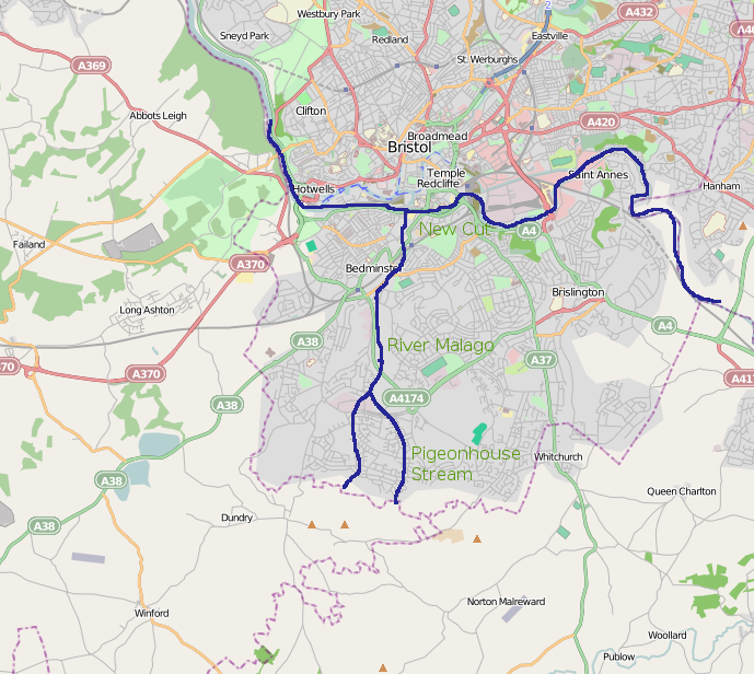 Diagrammatic map of the Malago and Pigeonhoyuse stream through South Bristol